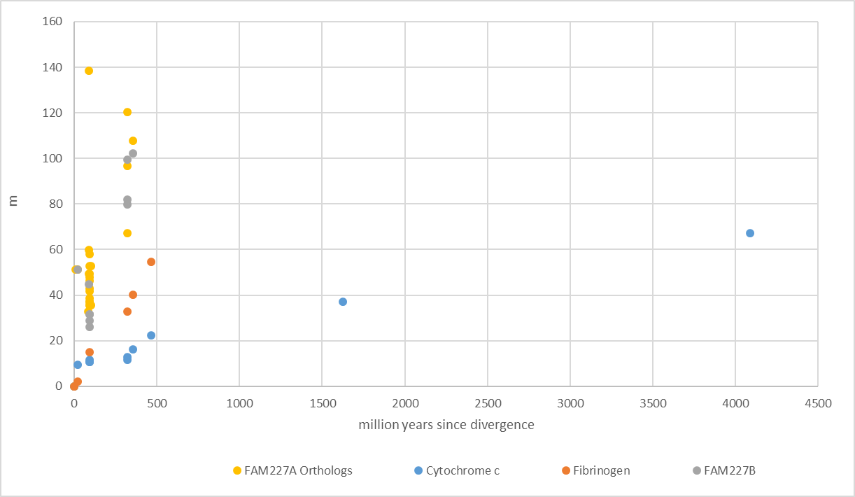 Evolutionary History Graph